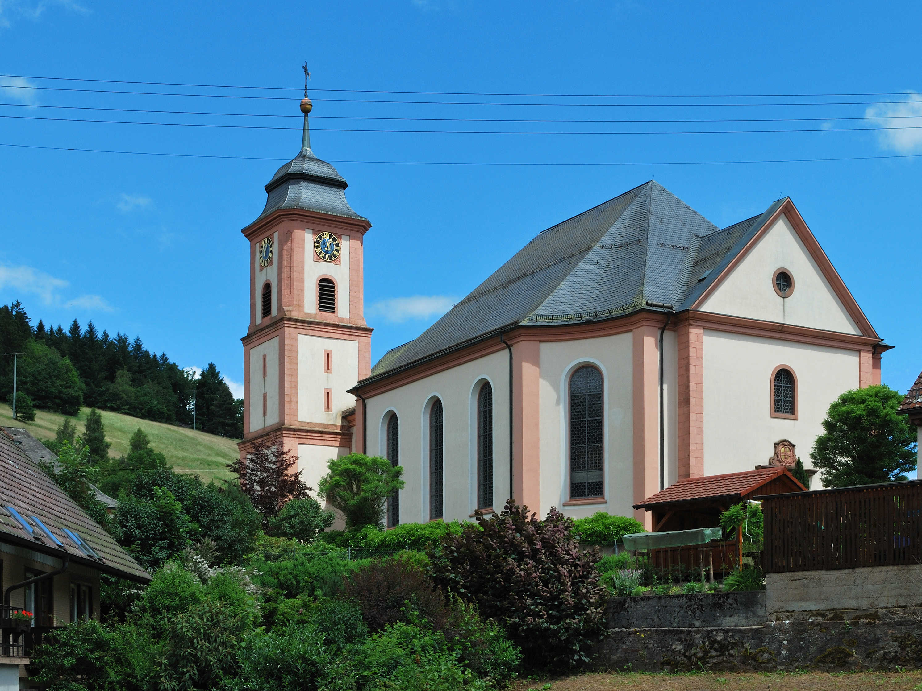 Catholic church St. Ulrich in Schenkenzell in the federal state Baden-Württemberg in Southern Germany.